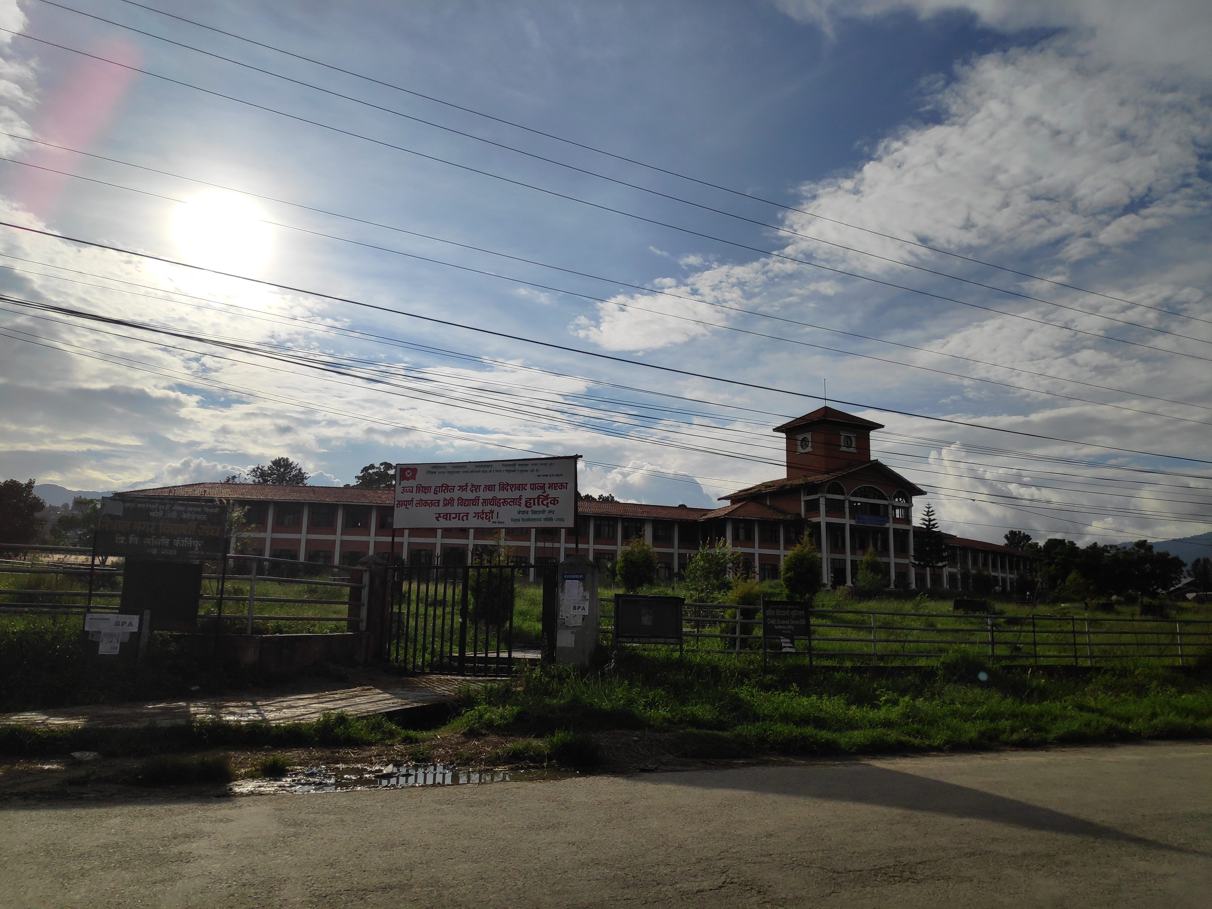 Tribhuvan University at Kathmandu, Nepal.